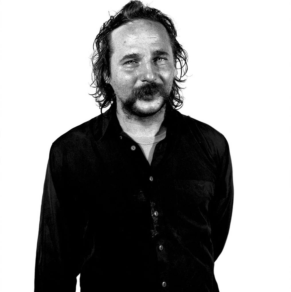 Portrait of Australian noise musician Justice Yeldham. View Large